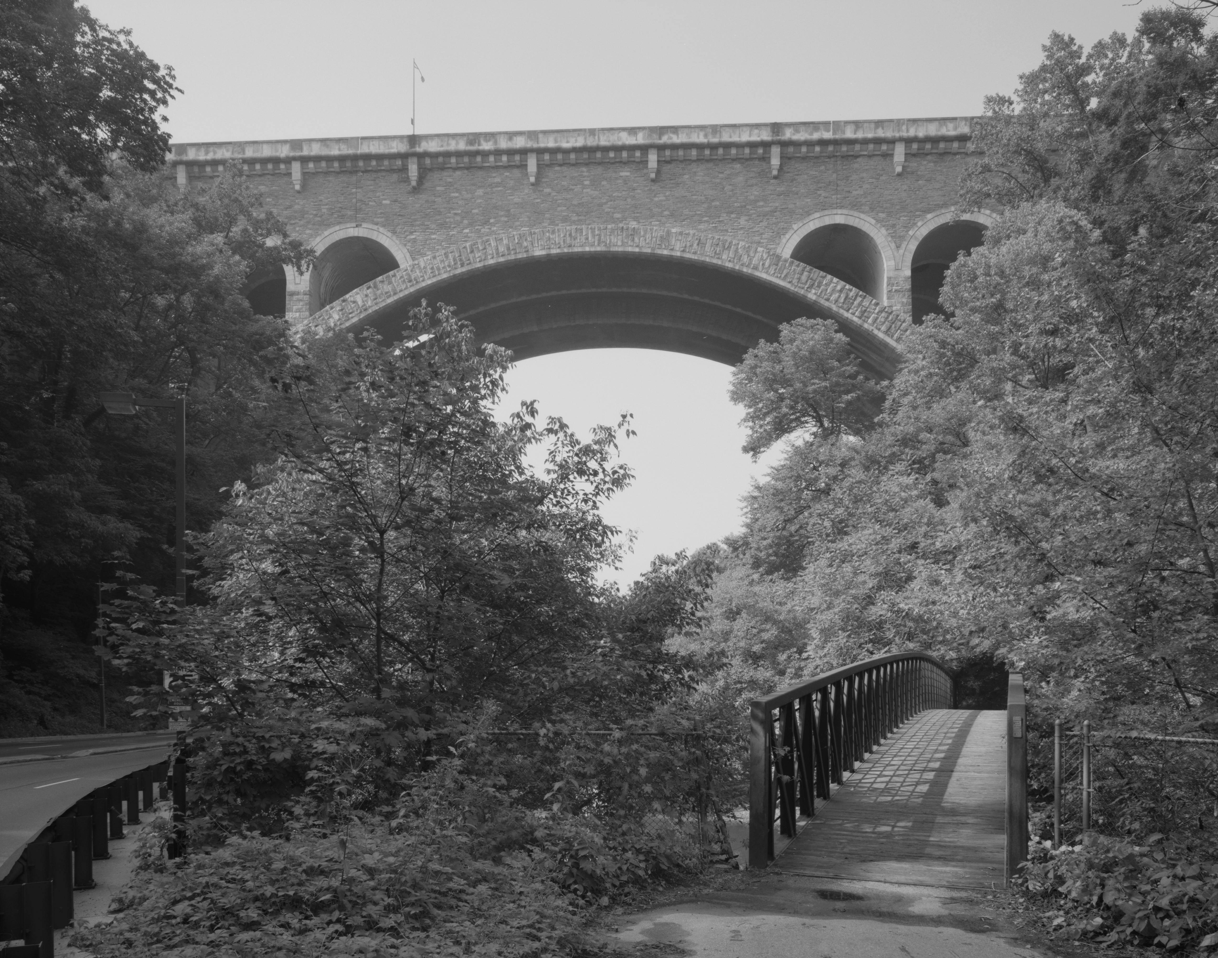 Henry Avenue Bridge over Wissahickon Creek, Fairmount Park, Philadelphia, Pennsylvania (1930-32). Ralph Modjeski and Clement E. Chase, engineers; George S. Webster, consulting engineer; Paul P. Cret, consulting architect.